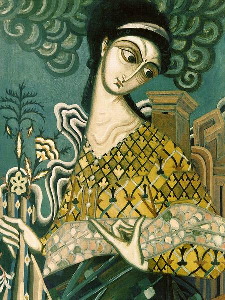 Stelletsky Dmitry Semenovich. "Dawn". Tempera on canvas. "Collection of Dudakov and Khashura" in the Museum of Private Collections.